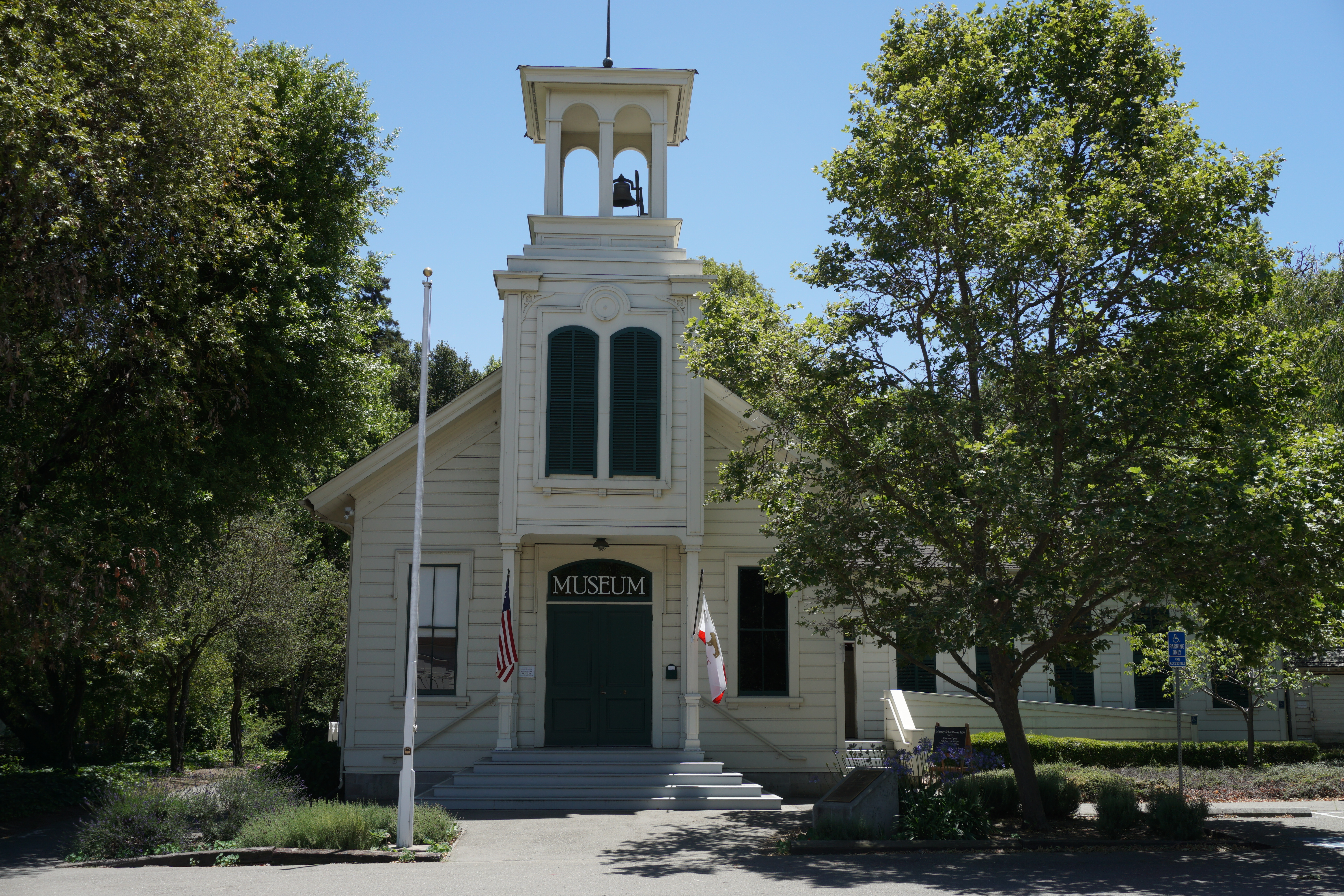 Built just after the California gold rush in 1856, The Murray Schoolhouse moved twice to its present location in the Dublin Heritage Center.